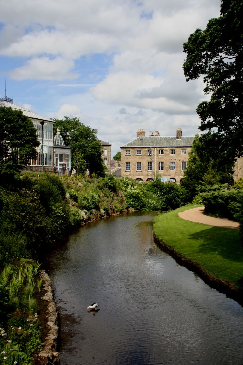 The River Wye as it passes through the Pavilion Gardens in Buxton. The building in the background is "The Square" built in 1803 by John White and to the left is the Conservatory of the Pavilion itself built in 1870 and designed by Joseph Paxton (who also designed the great Crystal Palace).